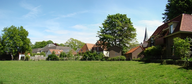 Vreesniet, Bredevoort